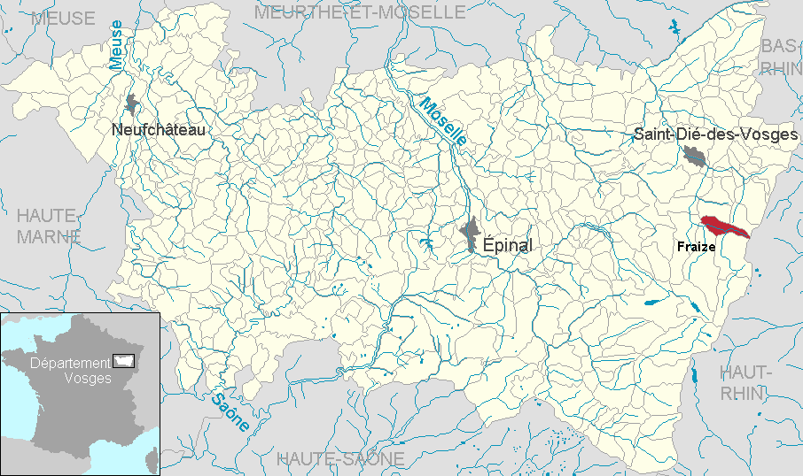 Fraize in the department of Vosges, Lorraine, France